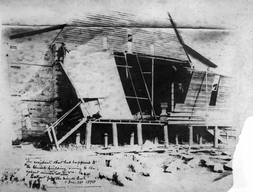 Storm damage to the original Christ Church at Milton, Brisbane, Queensland, Australia in 1890. The building was demolished and a "temporary" church (still in use) was built to replace it.